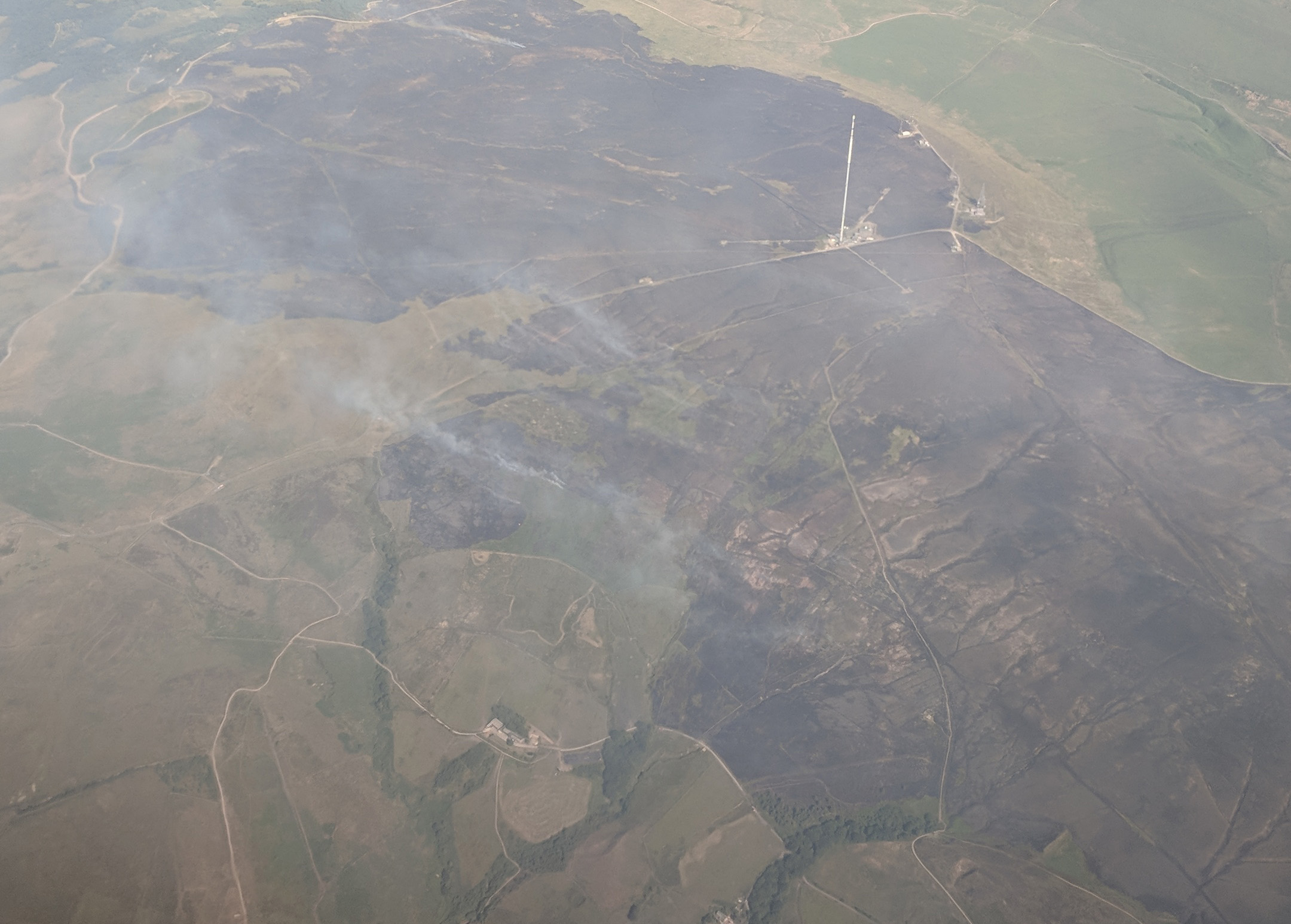 Summer 2018 fires from a flight back from Oslo